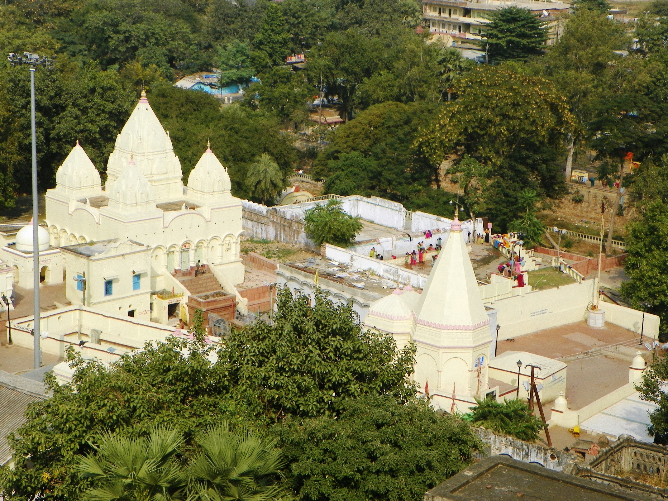 Hot spring bath at the Laxminarayan temple complex over the remains of ancient Tapodarama Buddhist monastery. The hot springs are situated at the foot of the Vaibharagiri (Vaibhara or Baibhar Hill), Rajgir